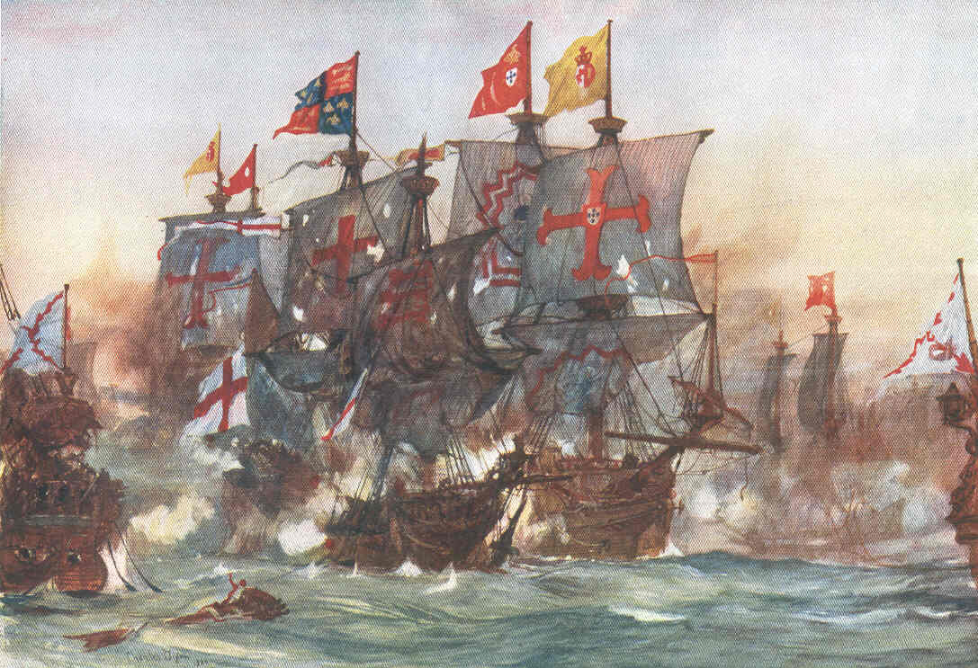 The last fight of the Revenge, oil on canvas.